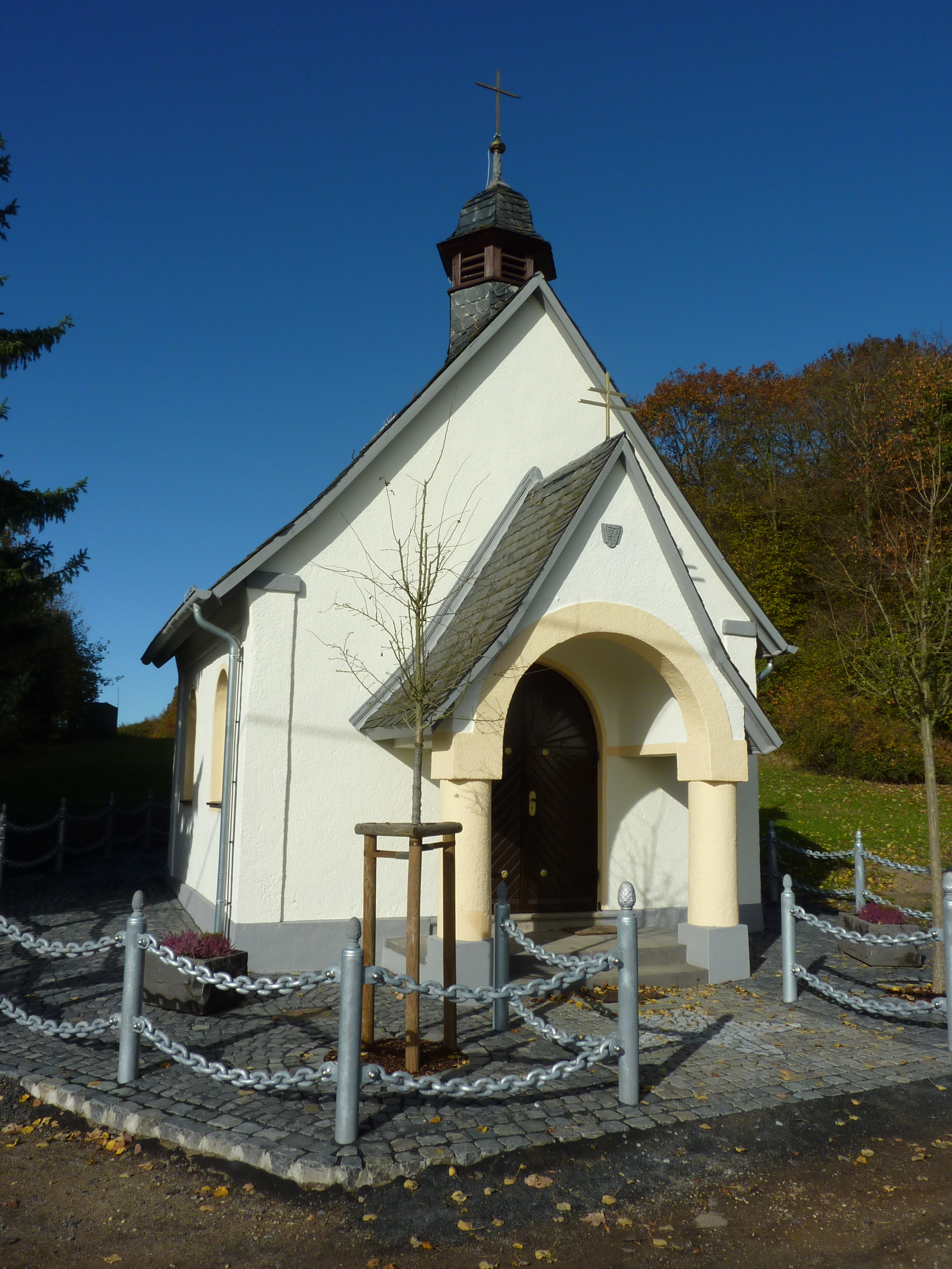 Chapel of Anthony of Padua in Erl (53547 Kasbach-Ohlenberg, Germany)